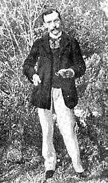 Albert Samain (1858–1900) - French poet and writer of the Symbolist school.